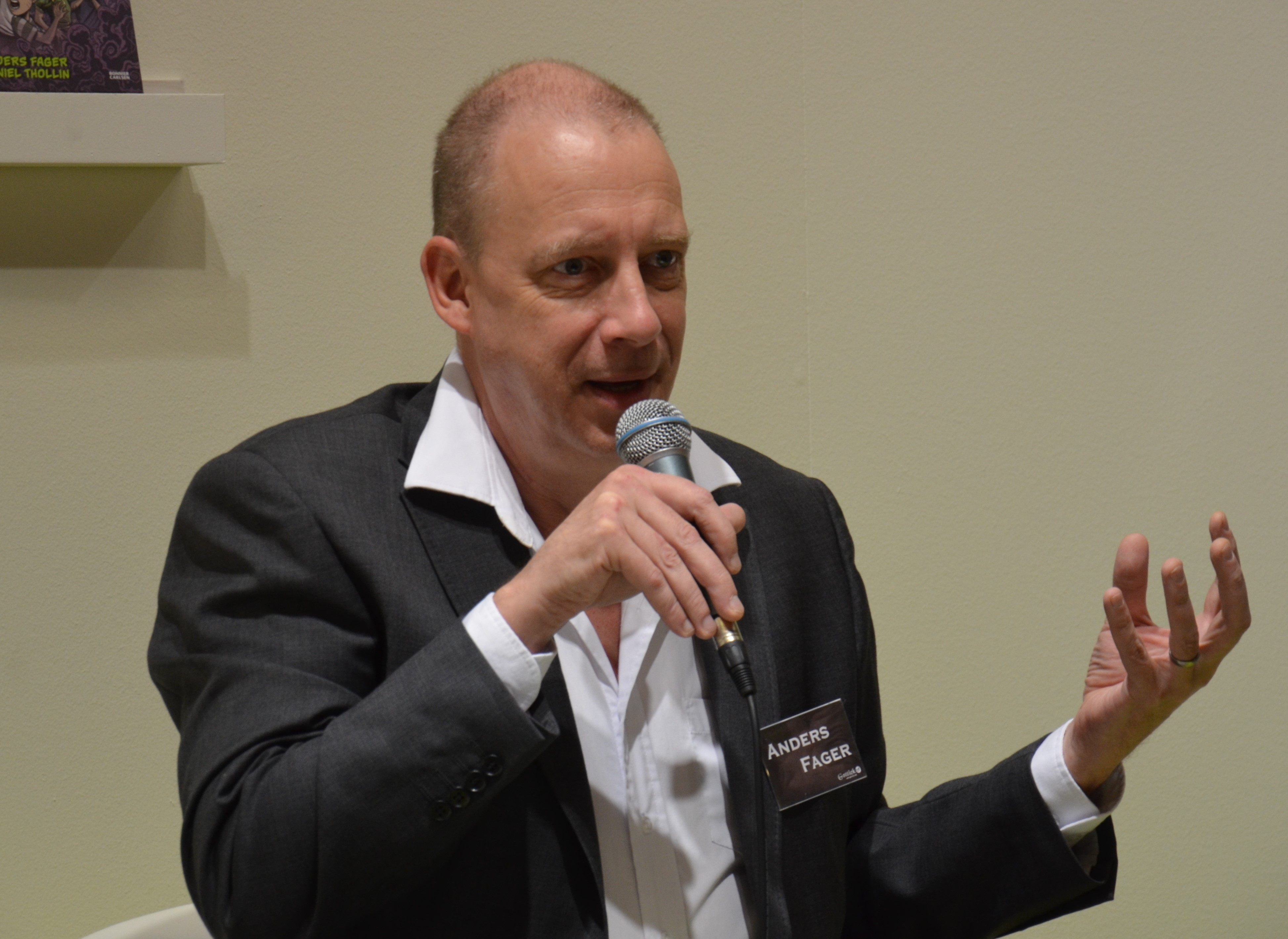 Anders Fager på Bokmässan i Göteborg 2014